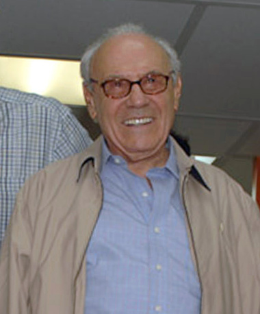 CORINTO, Nicaragua (July 8, 2009) Nicaraguan Vice President Jaime Morales and U.S. Ambassador to Nicaragua Robert Callahan greet patients during a tour of the Military Sealift Command hospital ship USNS Comfort (T-AH 20). Nicaragua is the final Continuing Promise 2009 stop for Comfort. Continuing Promise is a four-month humanitarian and civic assistance mission to Latin America and the Caribbean region. (U.S. Air Force photo by Senior Airman Jessica Snow/Released)